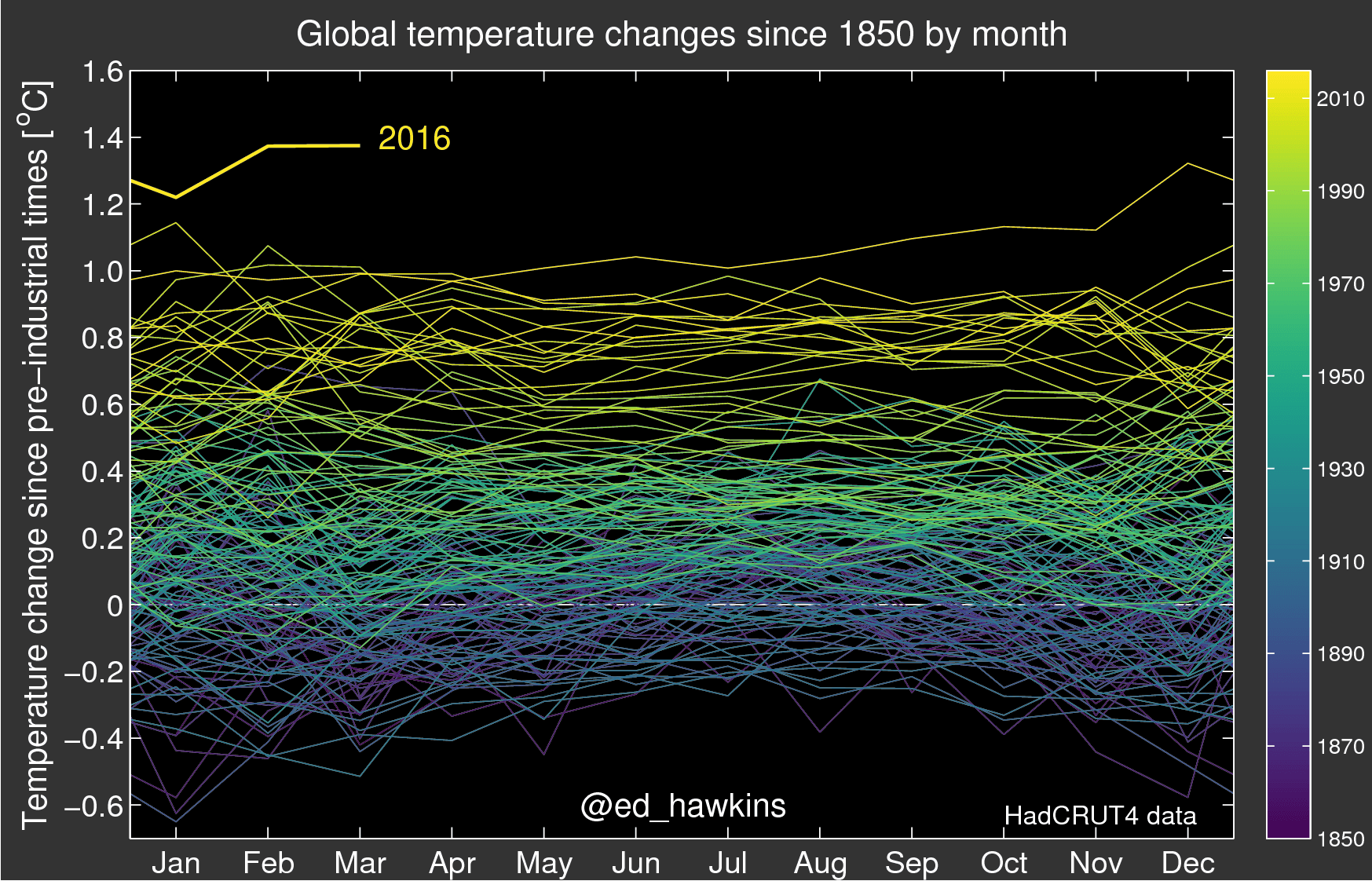 A colored line graph depicting global average temperatures for 1850-2016. Vertical scale is temperature Horizontal scale is month Color of graph line is year Source states: "Technical details: Monthly HadCRUT4.4 global temperatures referenced to ‘pre-industrial’ (defined as mean anomaly from 1850-1900, which is 0.31°C below 1961-1990), plotted using the viridis colour scale to indicate year. ... "